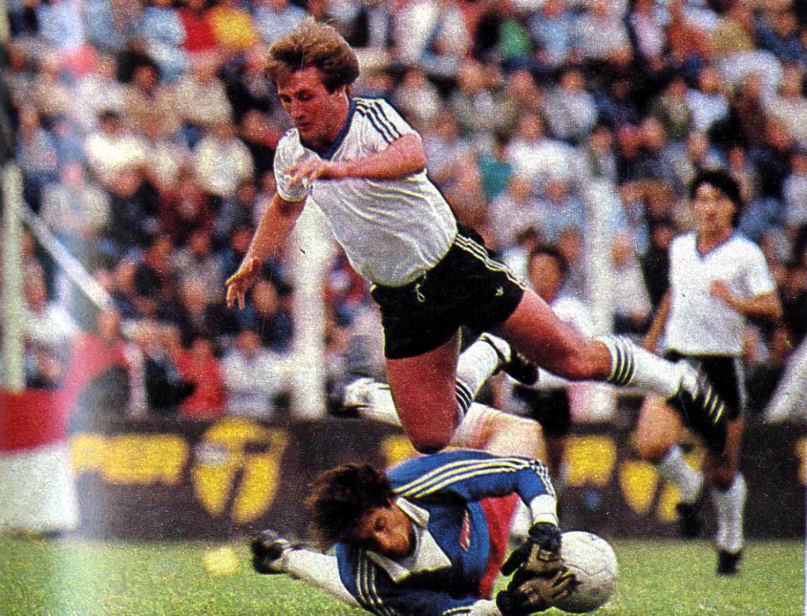 Enrique Vidallé saving vs Cristian Guaita of Temperley